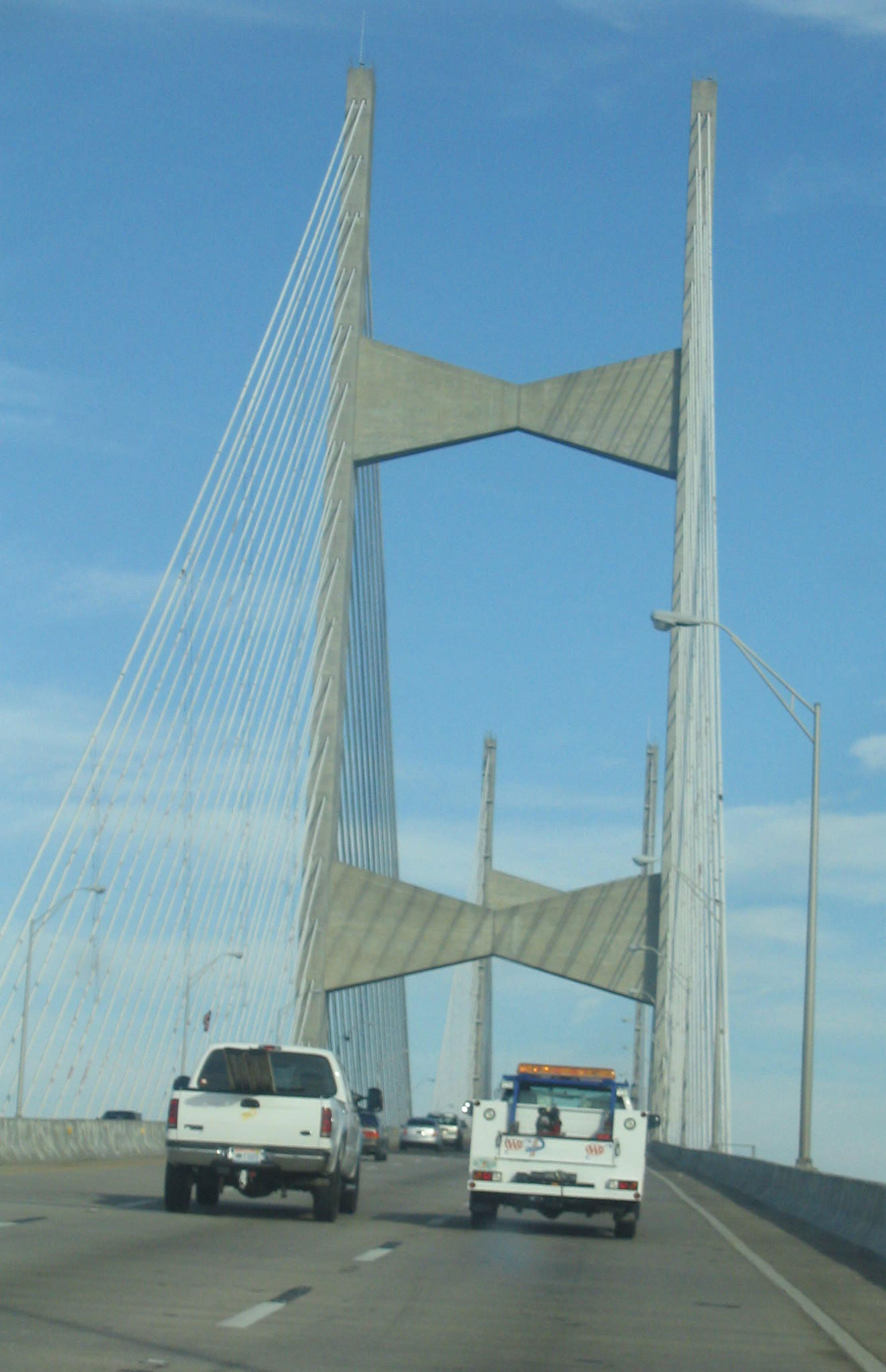 Northbound on the Dames Point Bridge. Taken January 8, 2005 by User:SPUI.